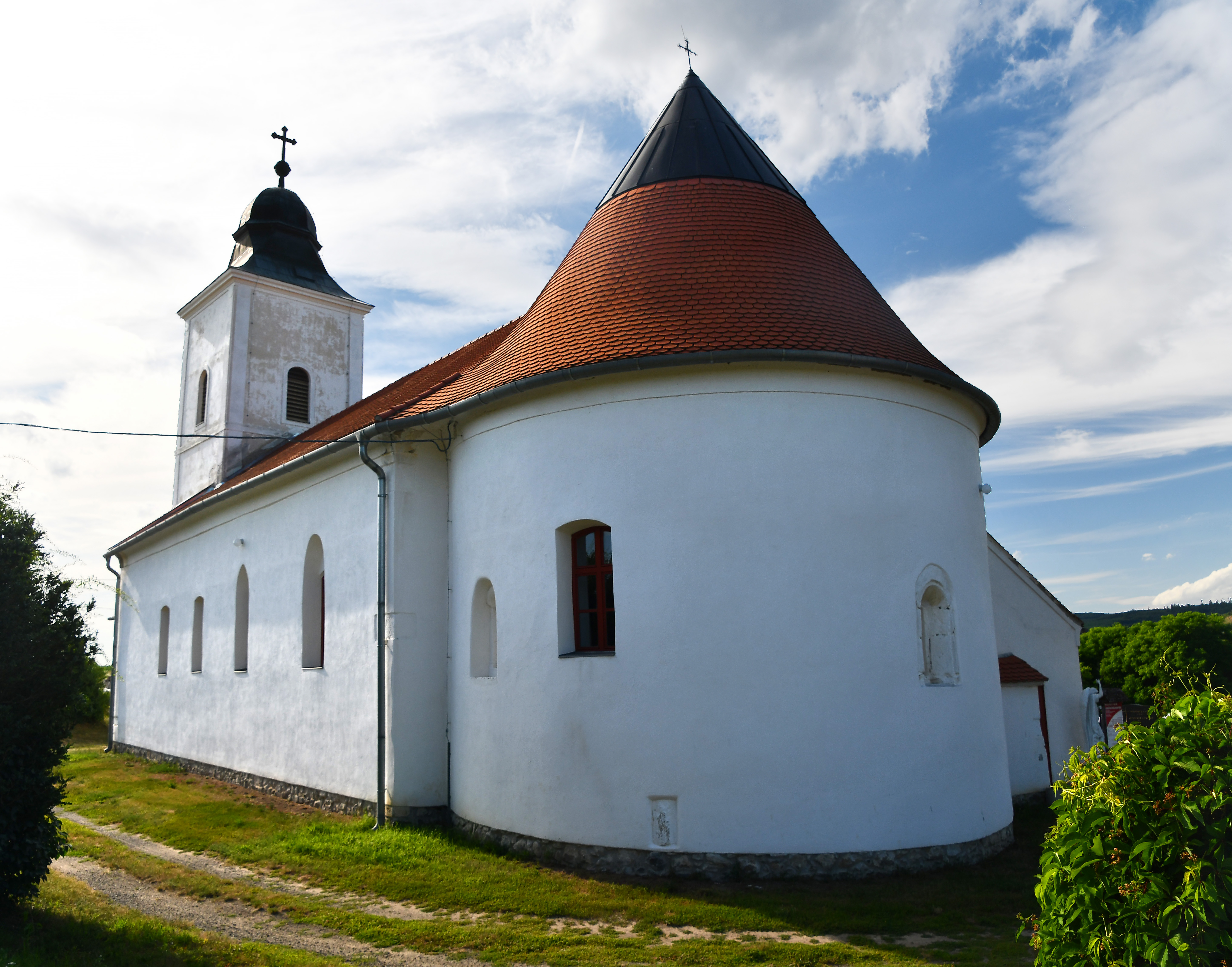 A herencsényi római katolikus Szent Mihály arkangyal templom a keleti tájolású rotunda felől